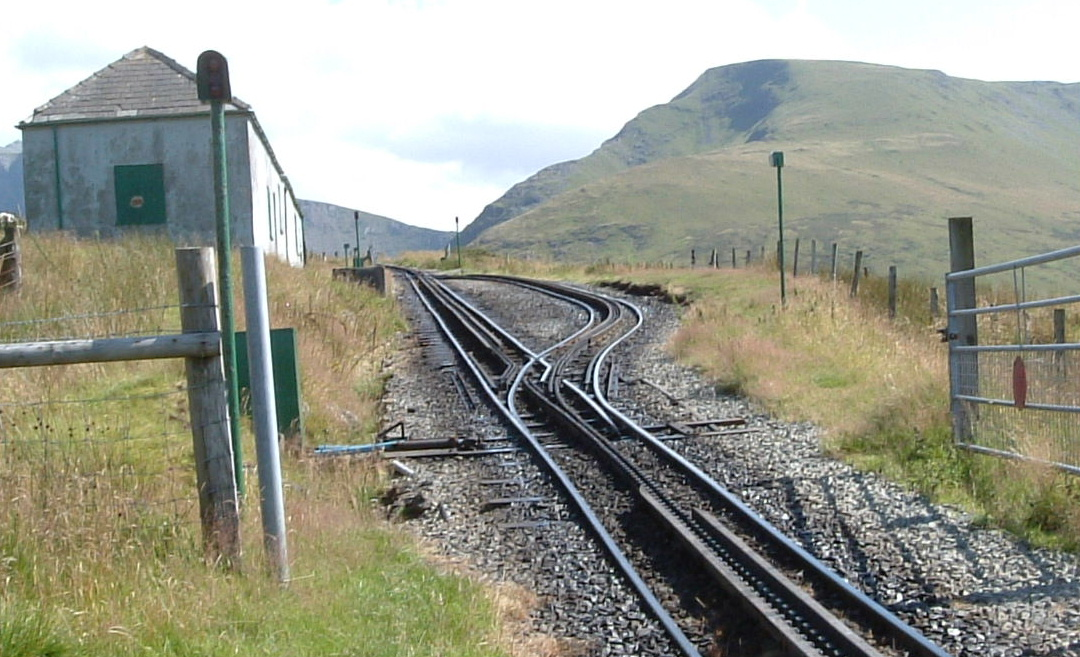 Snowdon Mountain Railway. The station and loop at Hebron. 31st July 2004 Photographer - A.M.Hurrell Camera - Fuji FinePix F401 Modified - Trimmed and file size reduced using Finepix Software